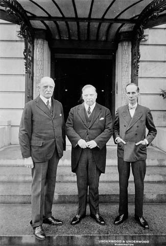 Sir Esme Howard, The Right Honourable William Lyon Mackenzie King, and The Right Honourable Vincent Massey at the Canadian Legation during a visit to Washington